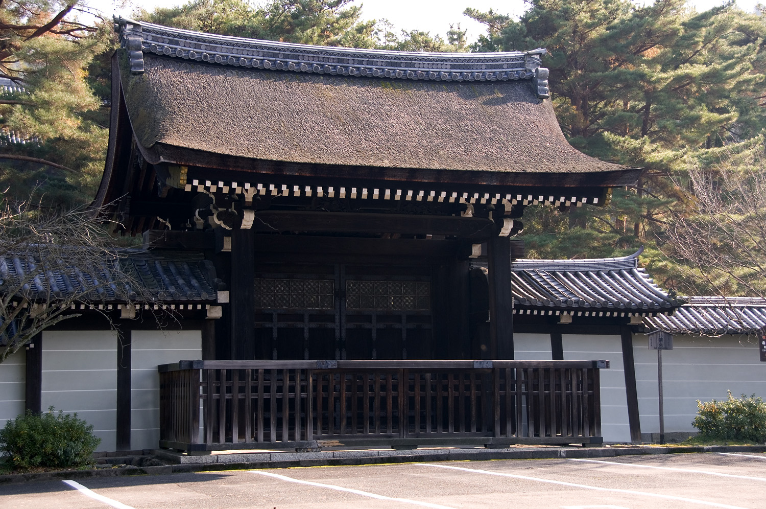 This is the chokushi-mon at Nanzen-ji. 南禅寺勅使門